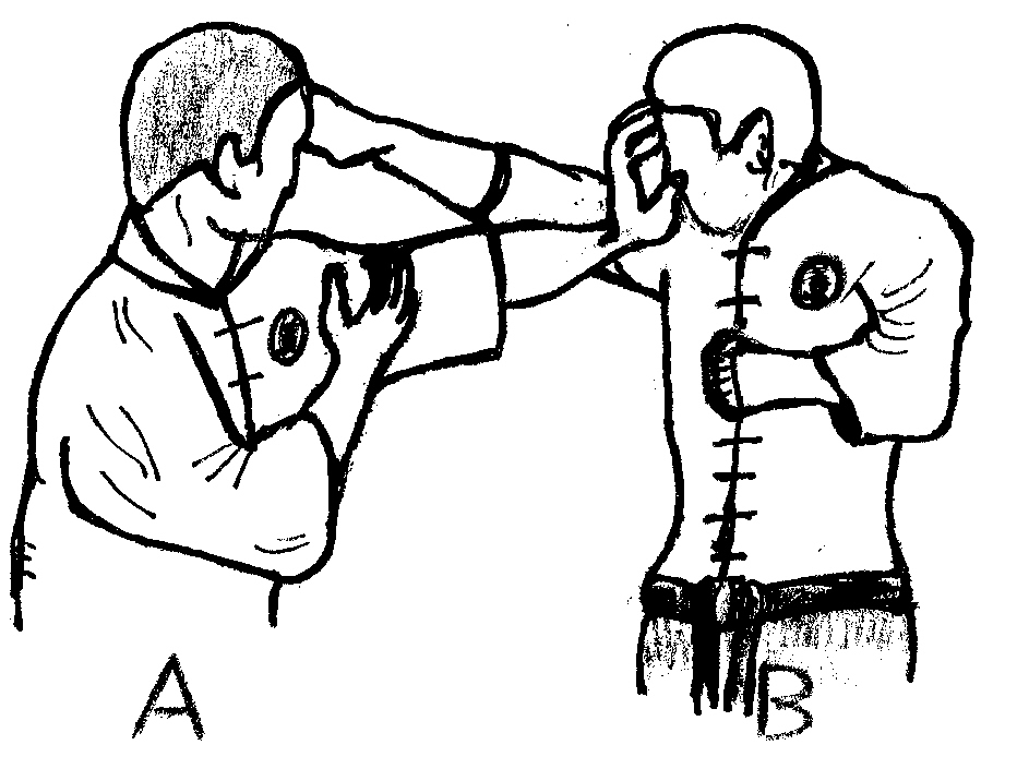 punch_tigre2